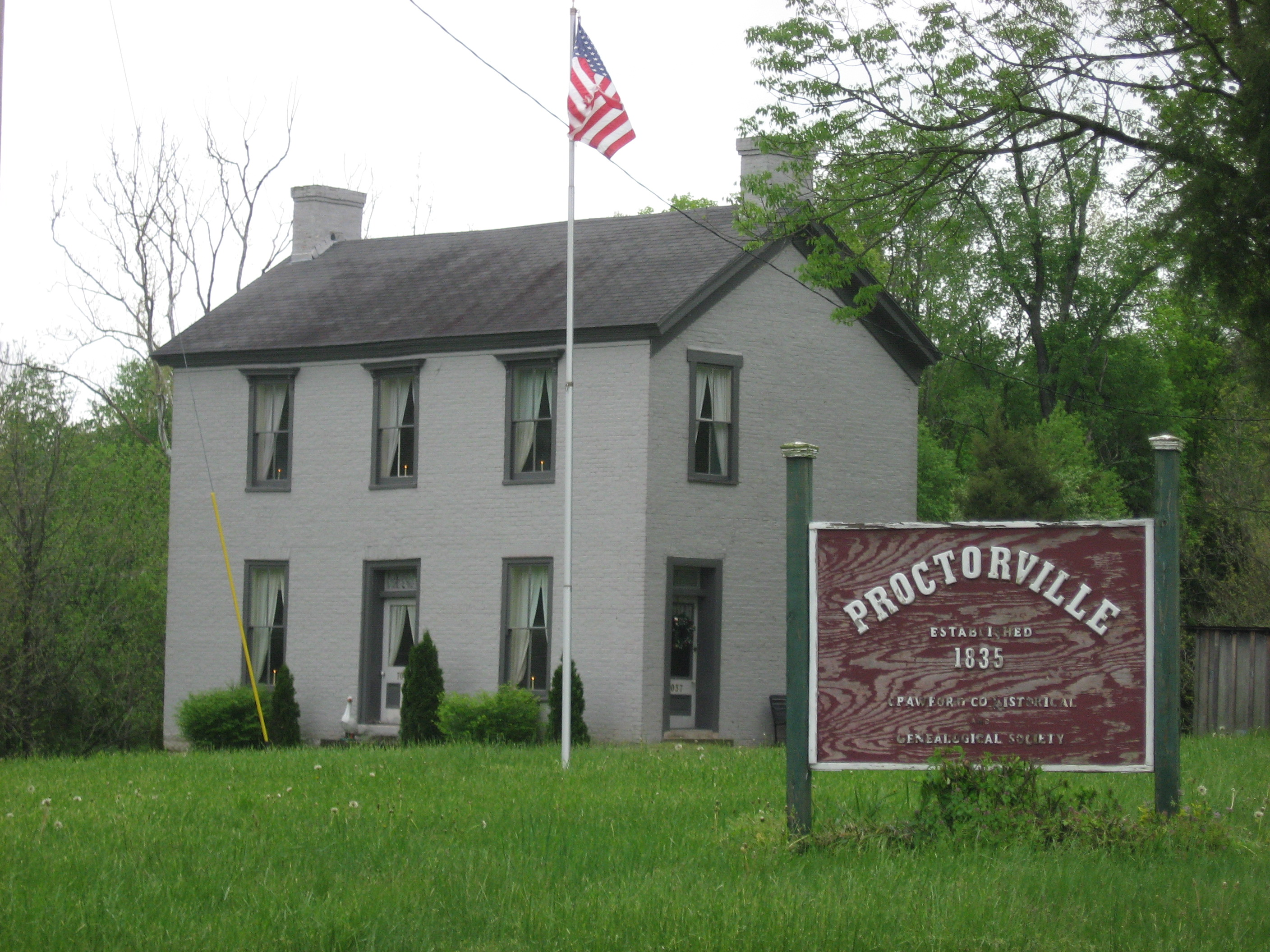 Front and western side of the William Proctor House, located at 7037 State Road 64 east of Marengo in Liberty Township, Crawford County, Indiana, United States. Built in 1832 and later modified into the Italianate style, it is listed on the National Register of Historic Places.